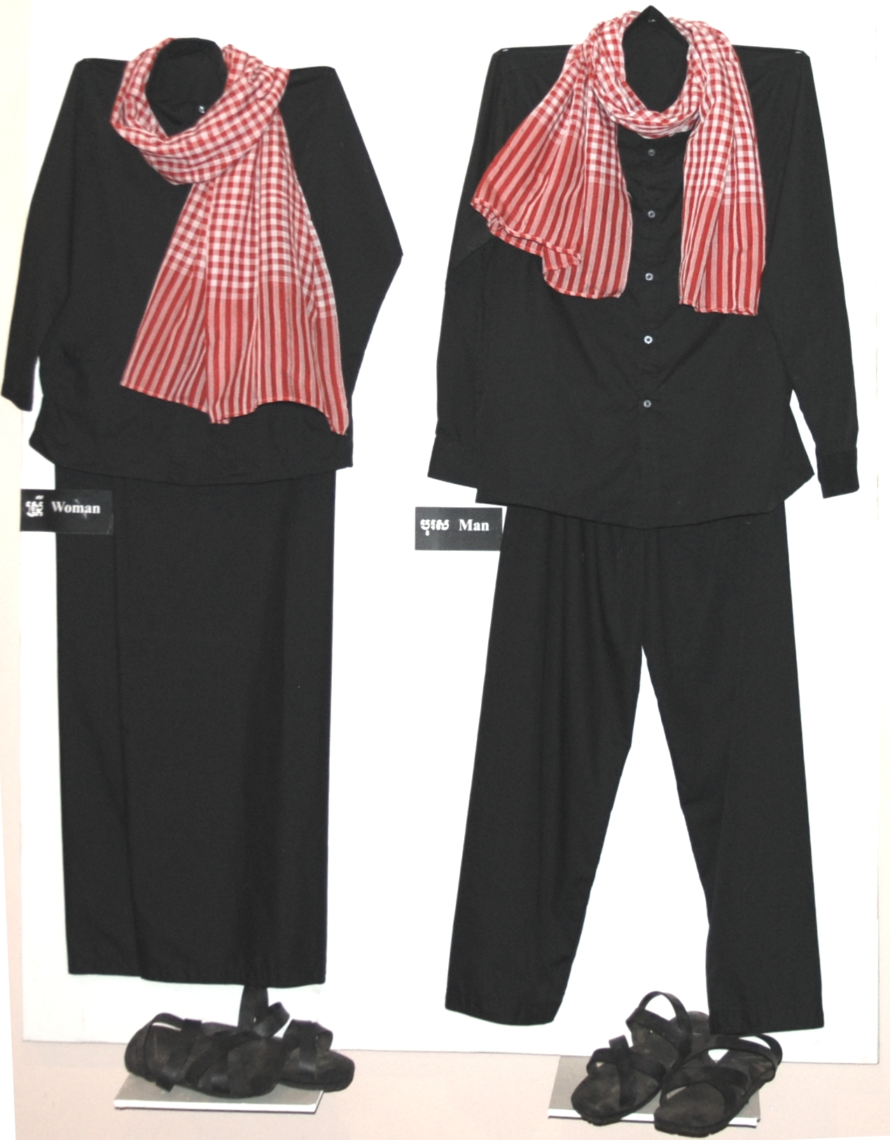 Khmer rouge clothing, photography taken at the museum of Choeung Ek (august 2009)